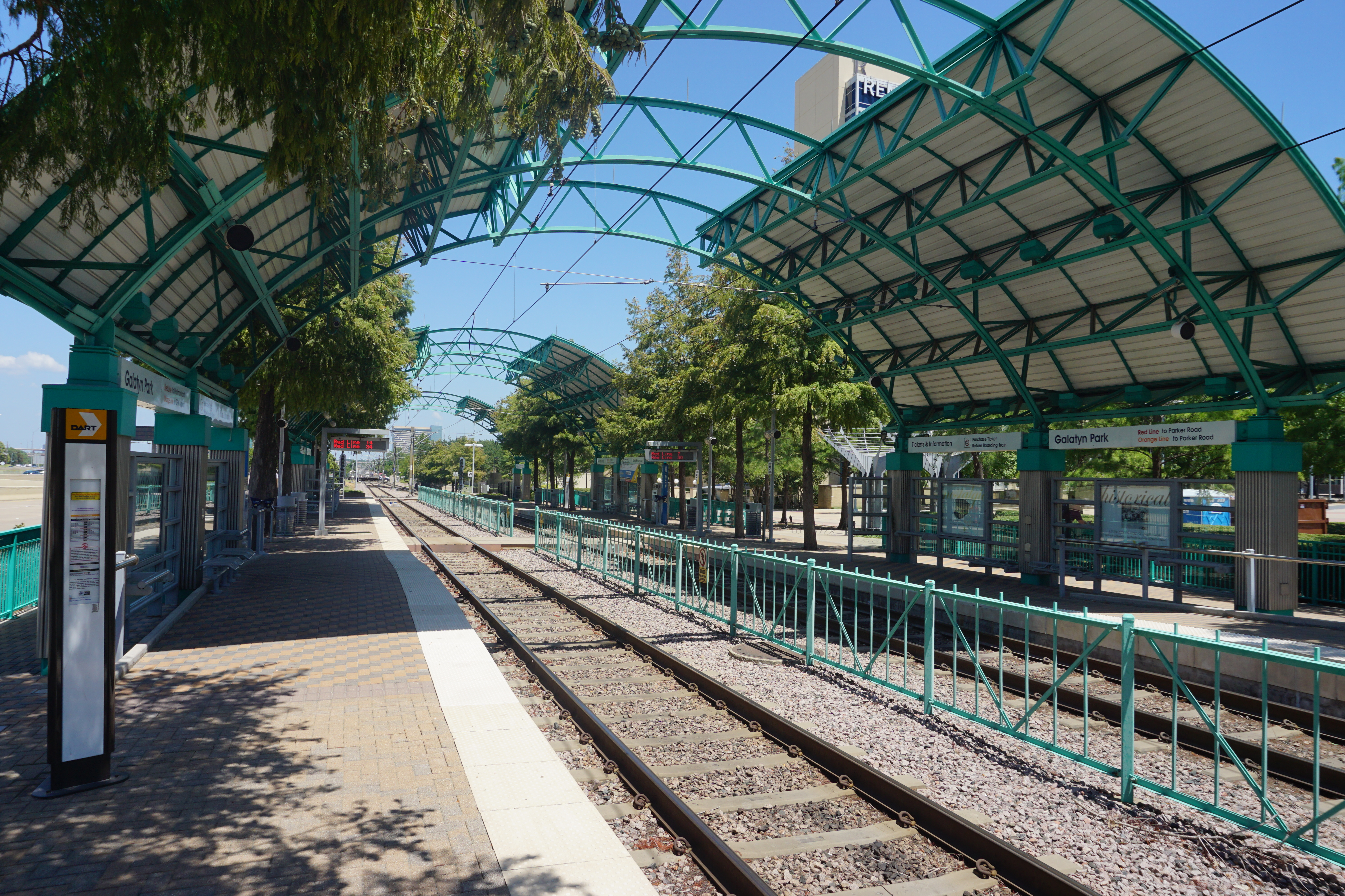 Galatyn Park Station in Richardson, Texas (United States).